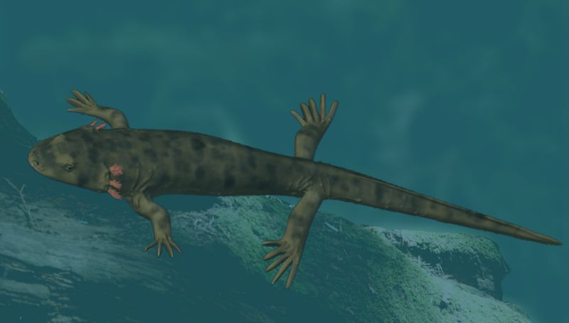 Chunerpeton tianyiensis, a salamander from the Middle Jurassic of China. Digital.